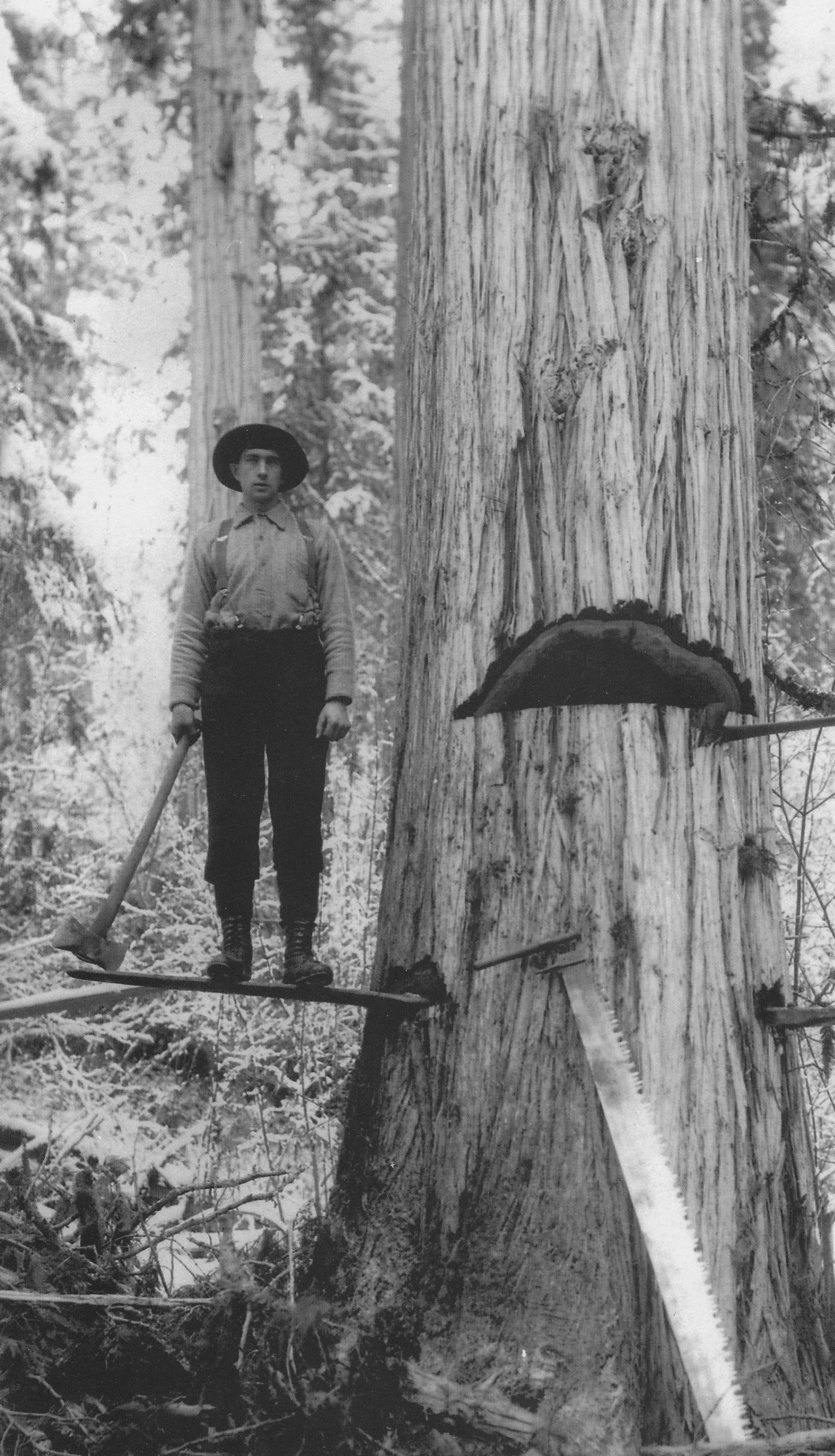 Bob Balmer hand falls a cedar tree twenty miles north of Adams Lake on the Adams River